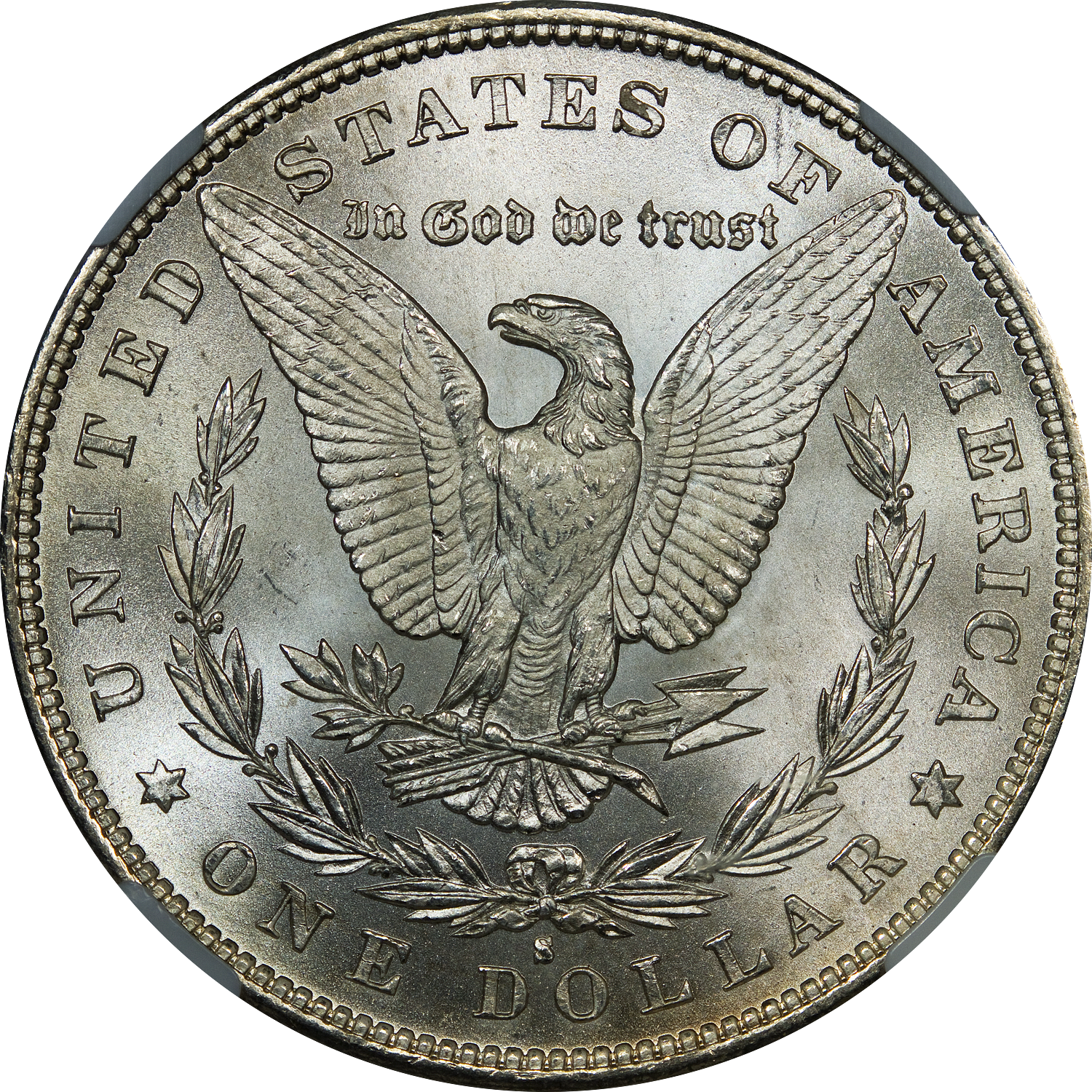 The reverse of the Morgan silver dollar. This particular coin was minted in 1879 at the San Francisco Mint (S mint mark) and is graded MS67+ by the Numismatic Guaranty Corporation (NGC). It is housed in a plastic NGC EdgeView holder (one can see the minimally viewable white prongs holding the edge of the coin).